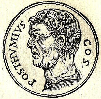 Aulus Postumius Albinus was a politician of the Roman Republic, and second consul in 99 BC with M. Antonius.